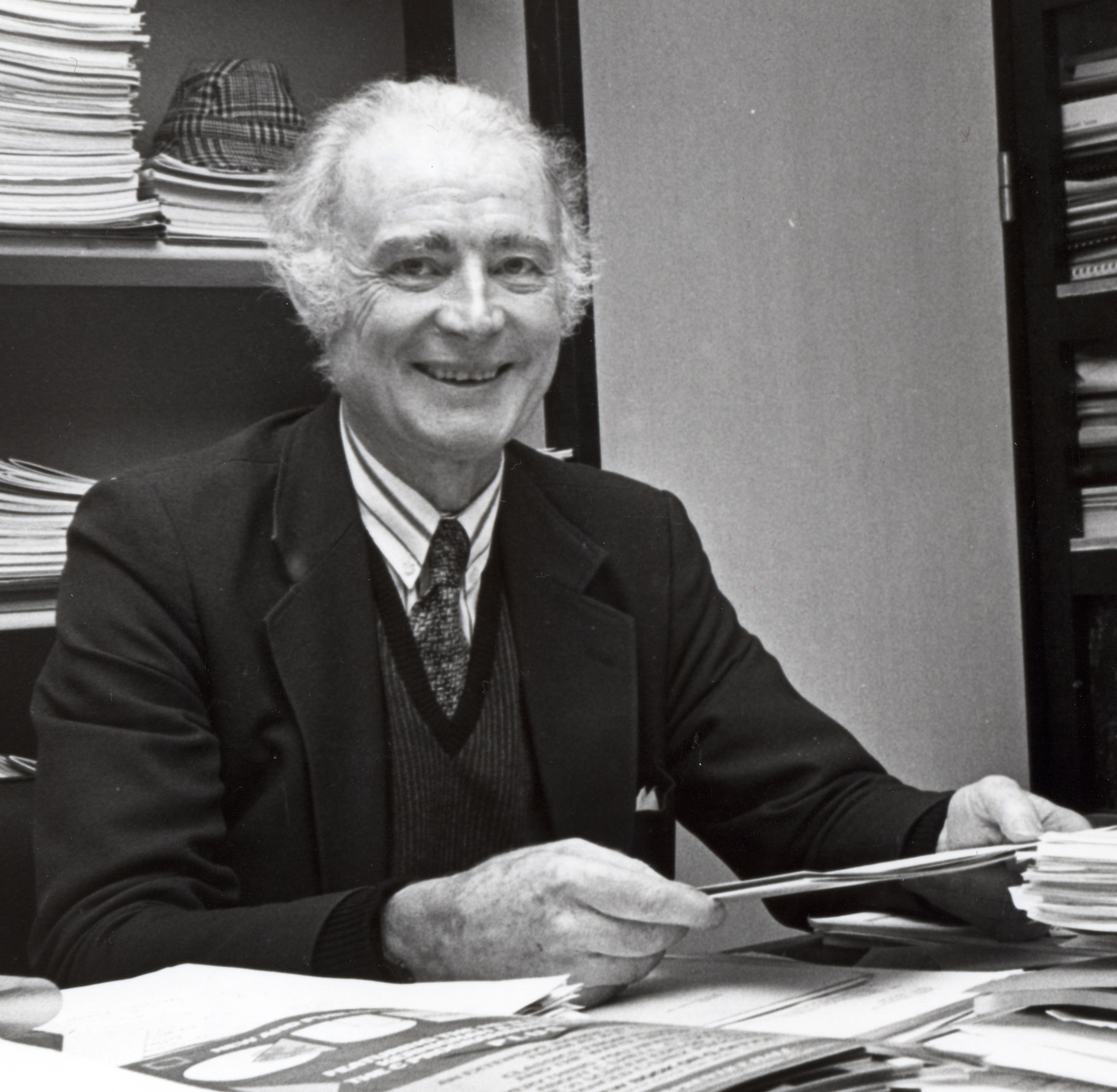 A. J. W. Duijvestijn – Dutch computer scientist and mathematician (1927-1998)